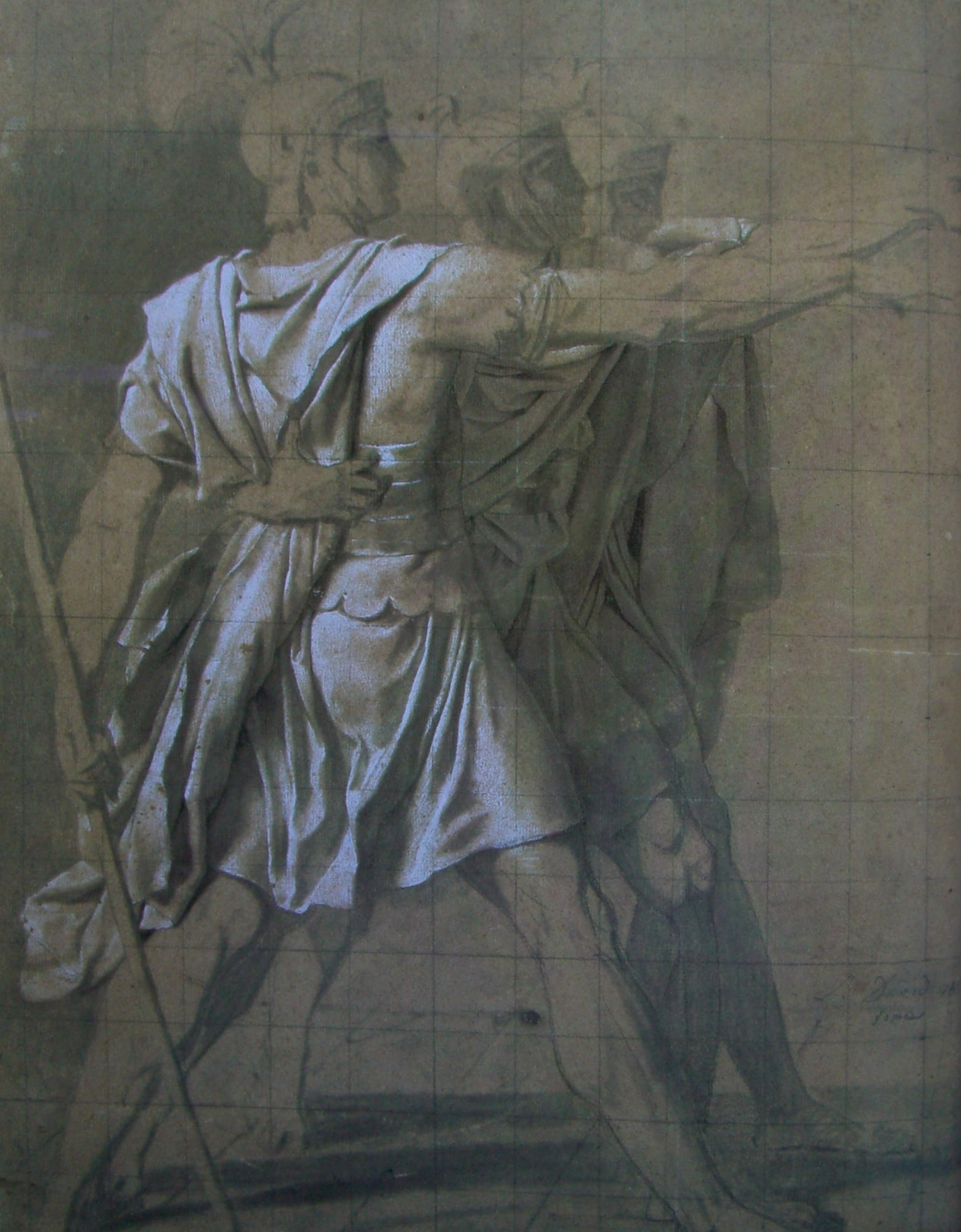 Study